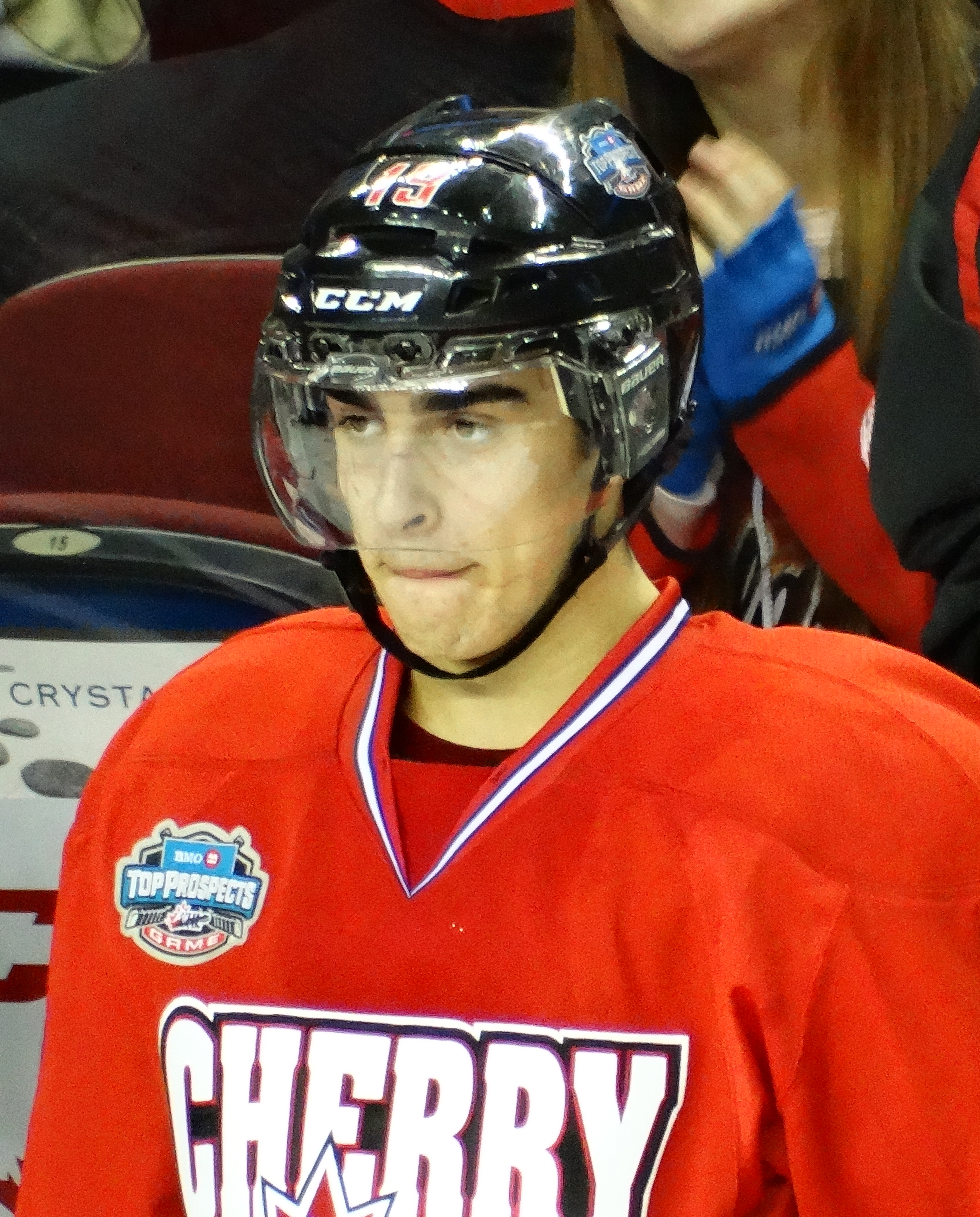 Robby Fabbri, Canadian ice hockey centre at the CHL / NHL Top Prospects Game